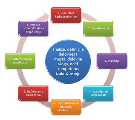 Talent Management Process - translated